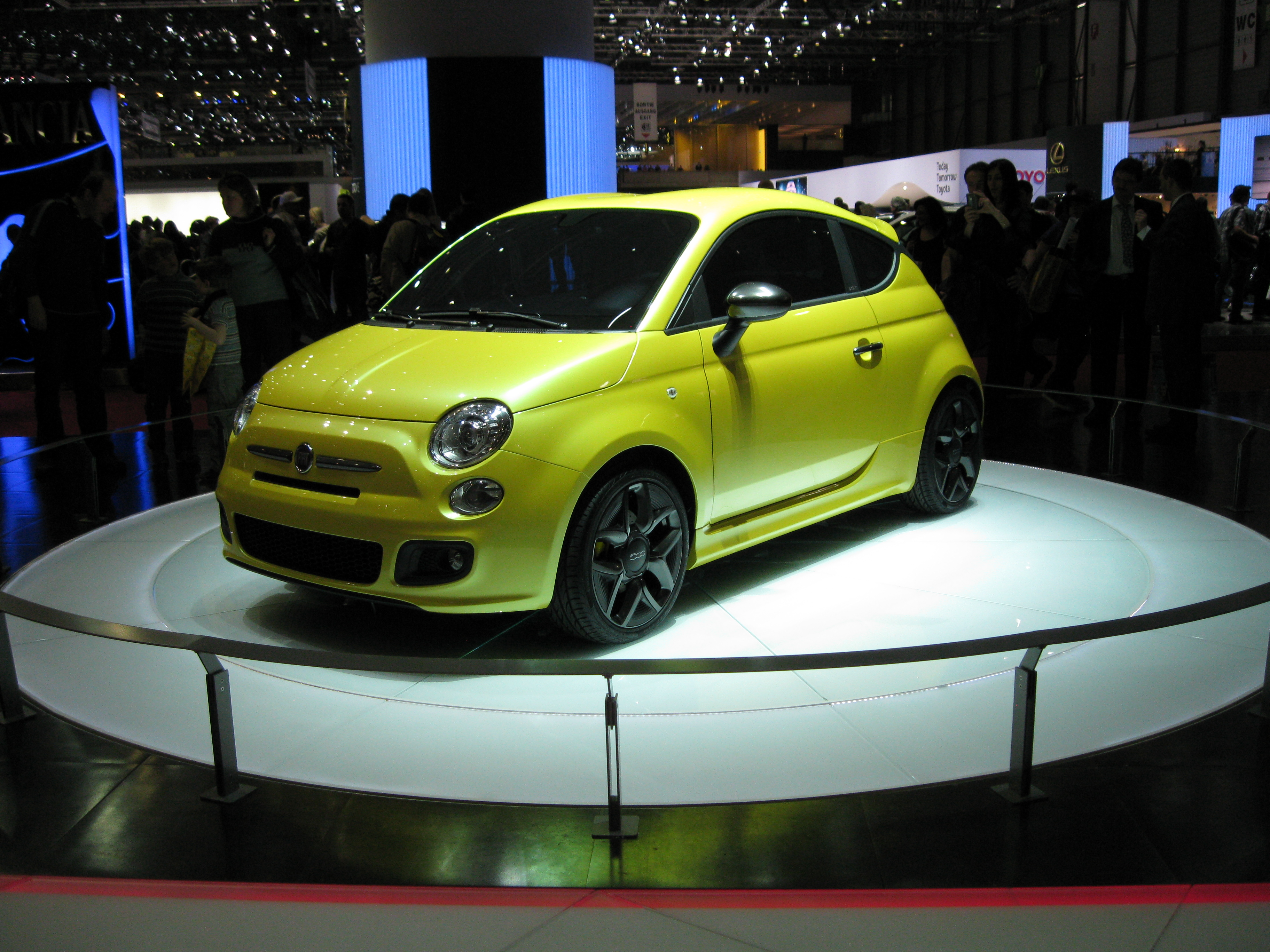 Geneva Motor Show 2011